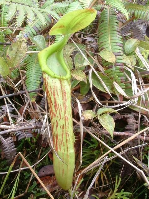 Nepenthes maxima from Western New Guinea (~1600 m asl)